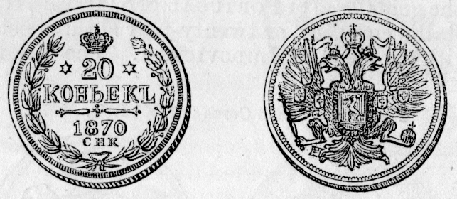 A Russian silver 20 kopeck piece of 1870. "Weight .11.2, fineness 875. Value 57 3/4d" Both sides shown